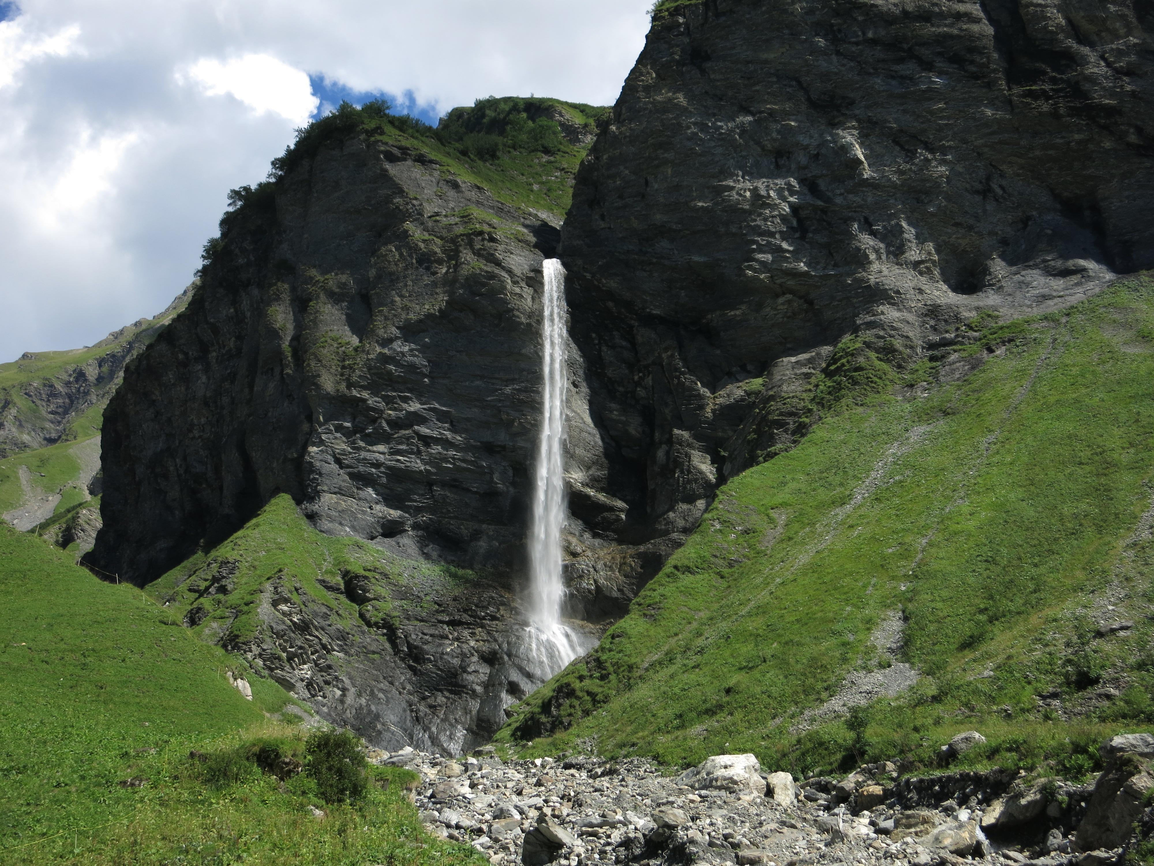 One of the waterfalls of Batöni, Switzerland